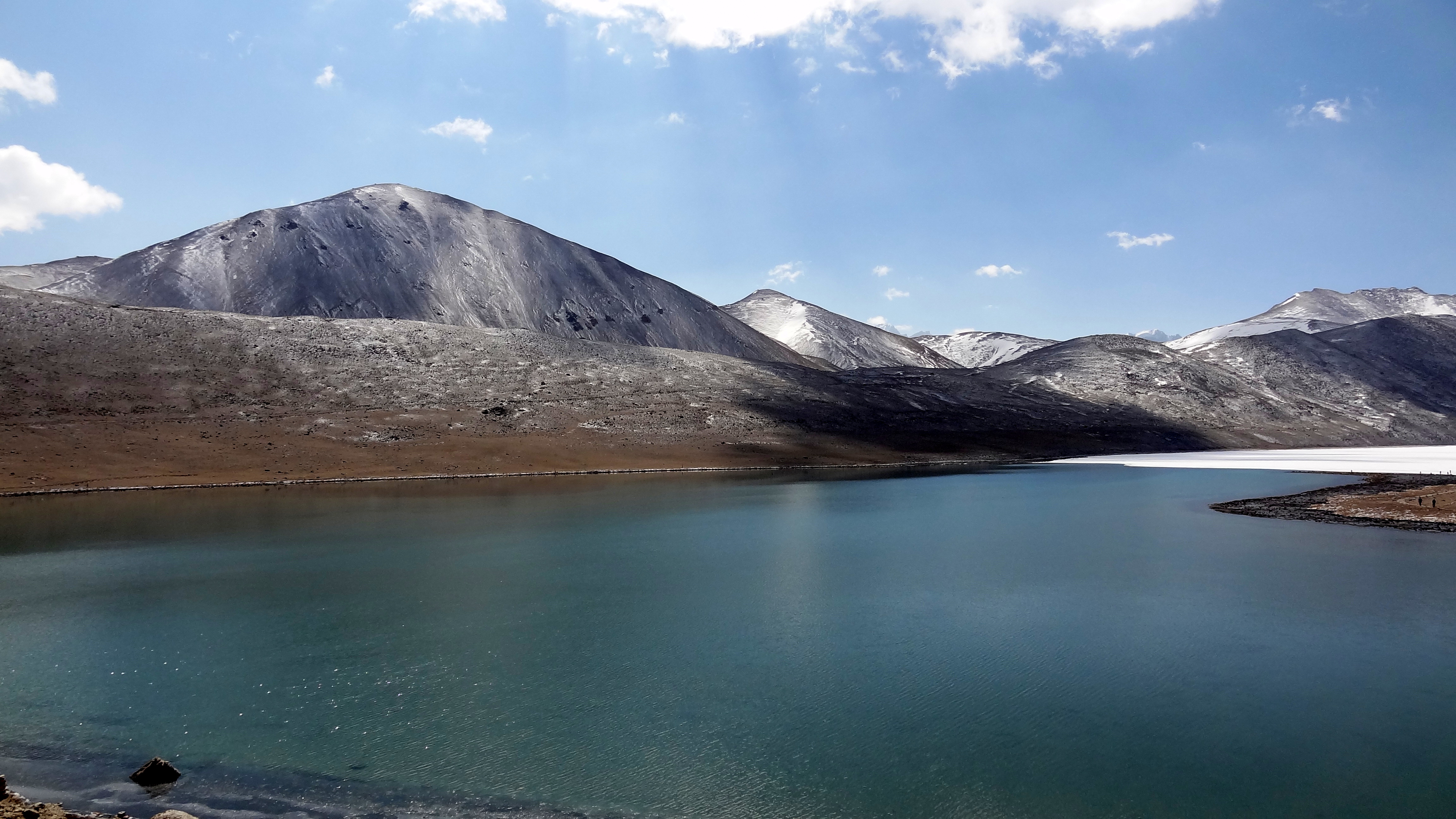 View of Gurudongmar in April